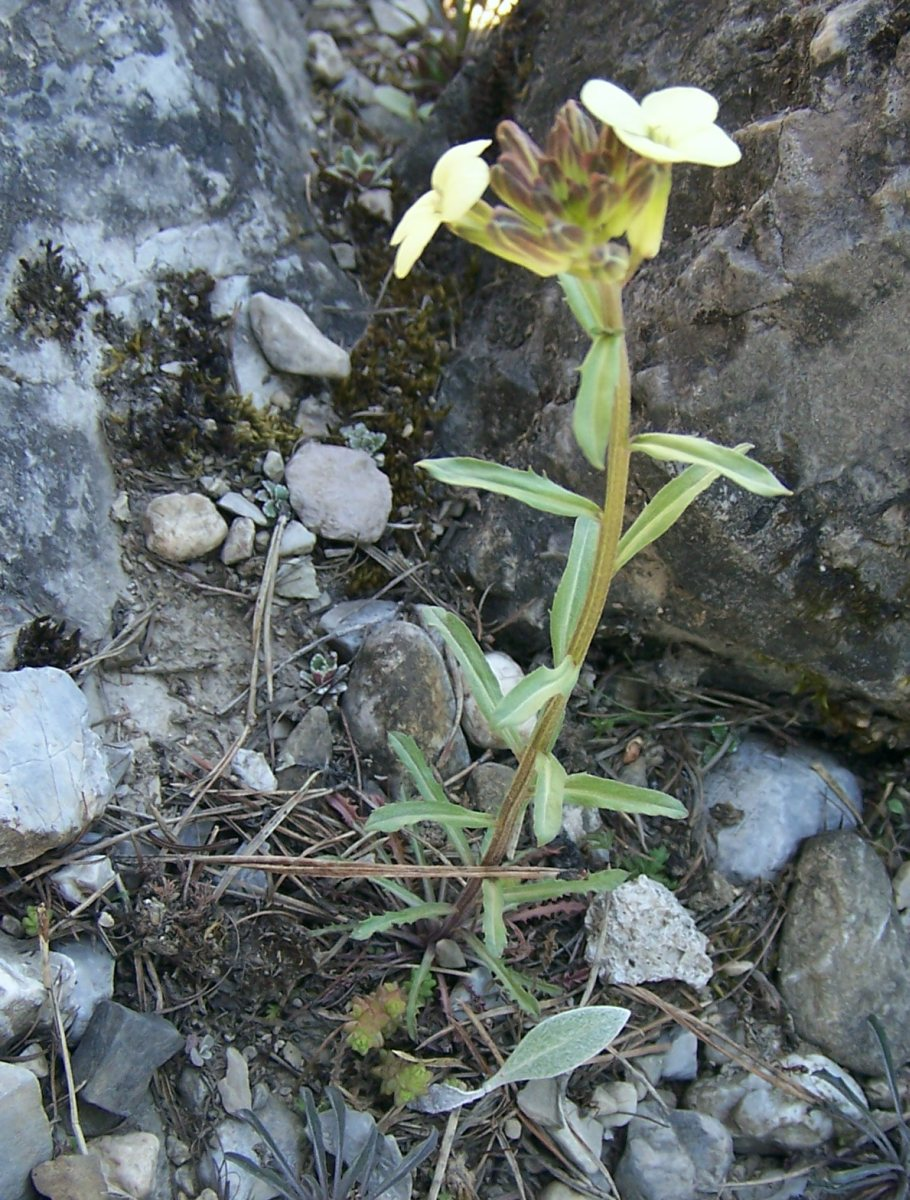 Erysimumwittmanii